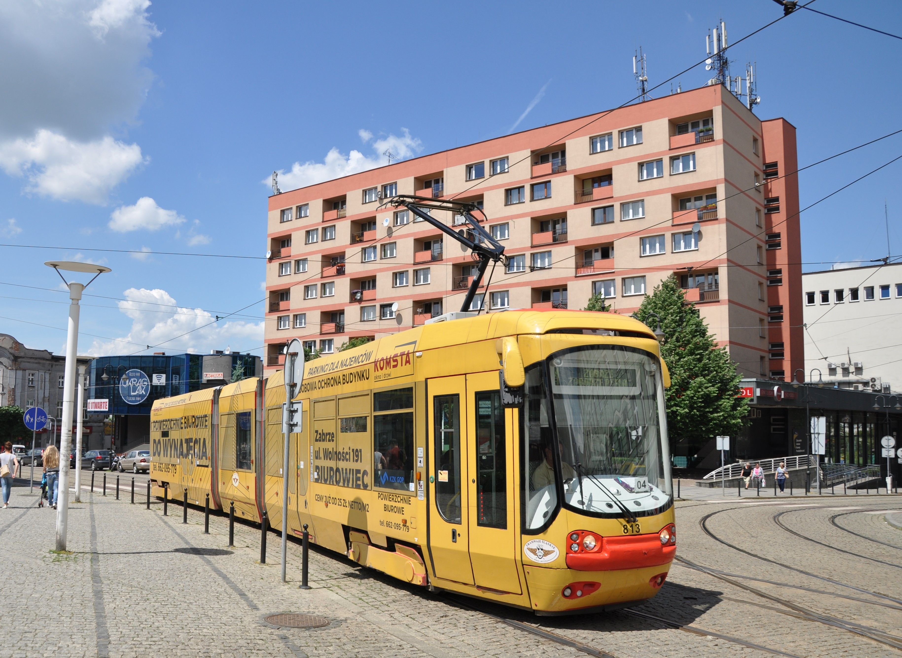 Trams of Tramwaje Slaskie